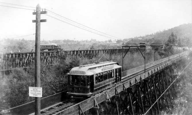 Arroyo Seco Trestles Rail and Street Car lines from Pasadena to downtown LA - Pasadena and Los Angeles Electric Railway Other information Pasadena and Los Angeles Electric Railway - Pasadena and Los Angeles Electric Railway